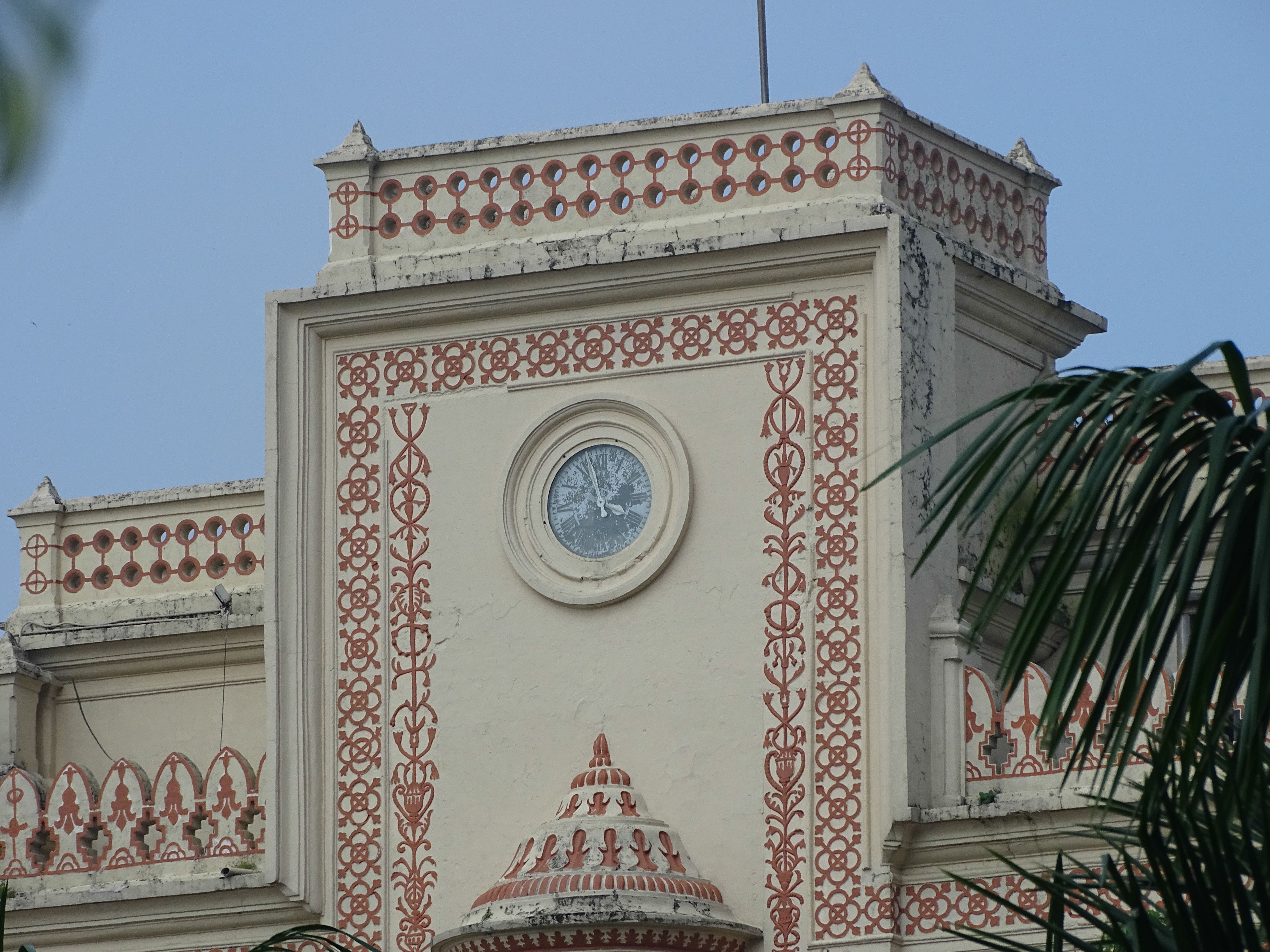 This picture was taken during Kalindi Khal Trek.